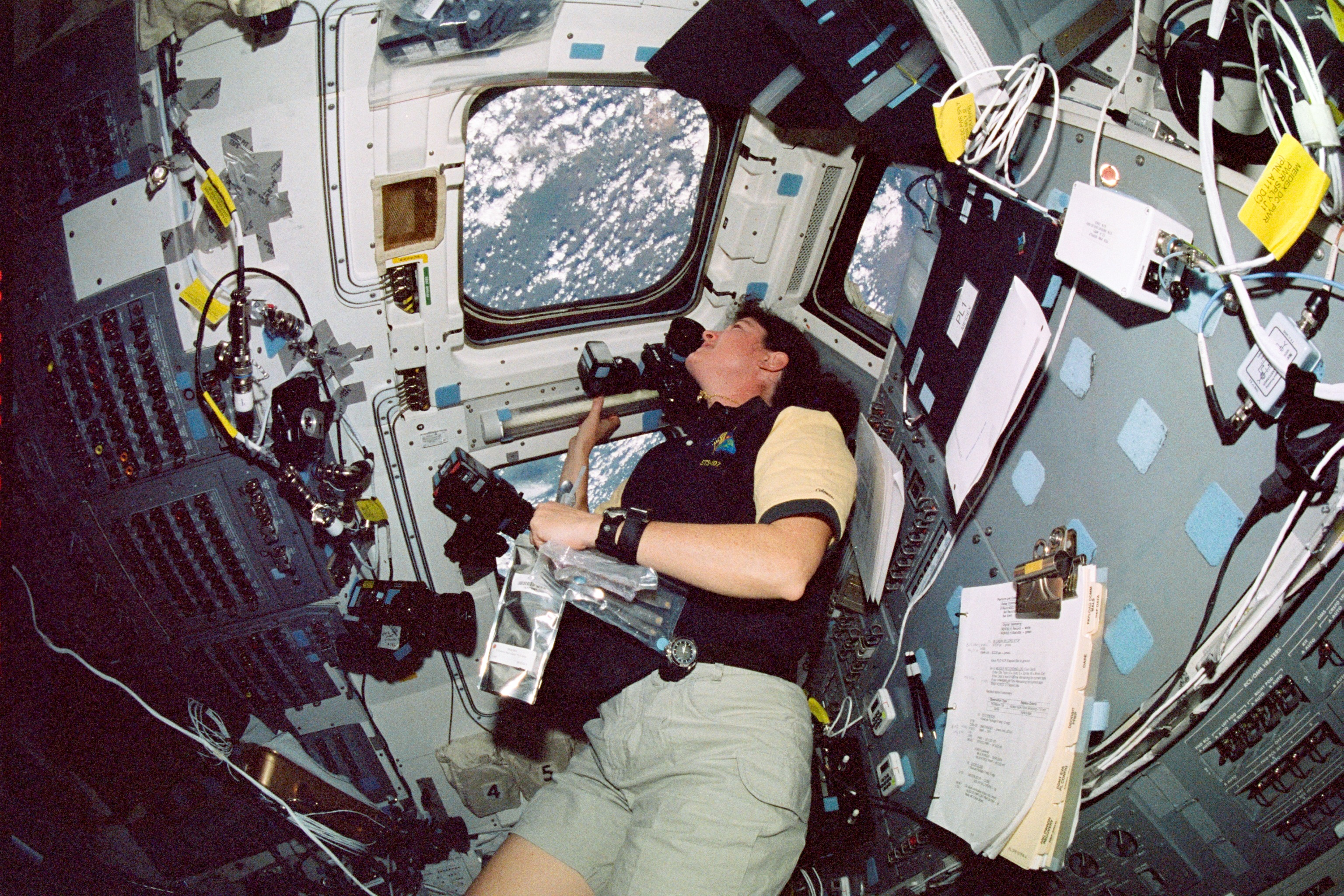 STS107-399-003 (16 January – 1 February 2003) --- Astronaut Laurel B. Clark, STS-107 mission specialist, looks through an overhead window on the aft flight deck of the Space Shuttle Columbia. EDITOR’S NOTE: On February 1, 2003, the seven crewmembers were lost with the Space Shuttle Columbia over North Texas. This picture was on a roll of unprocessed film later recovered by searchers from the debris.